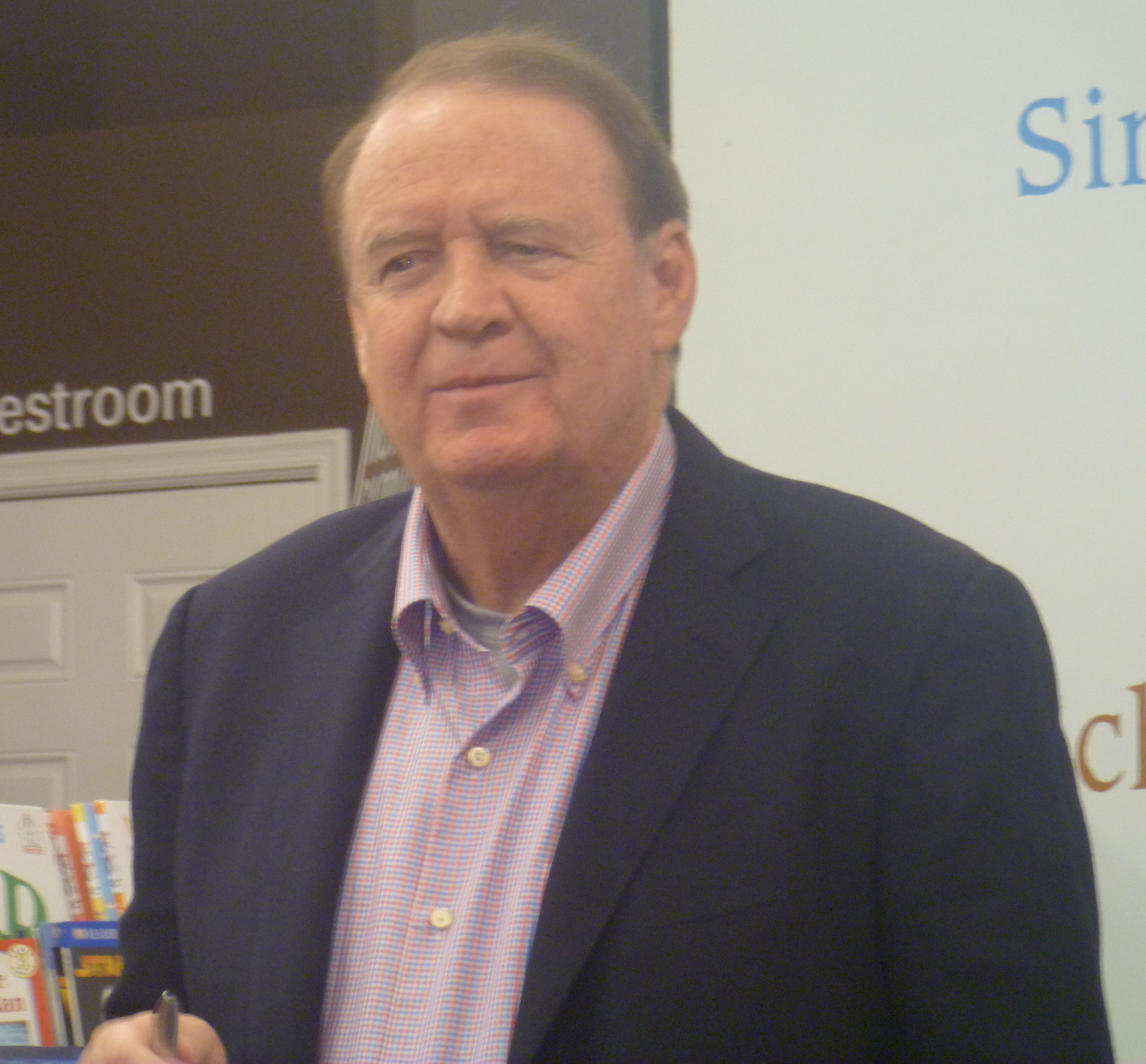 Richard Codey speaks at Words Bookstore in Maplewood, NJ.